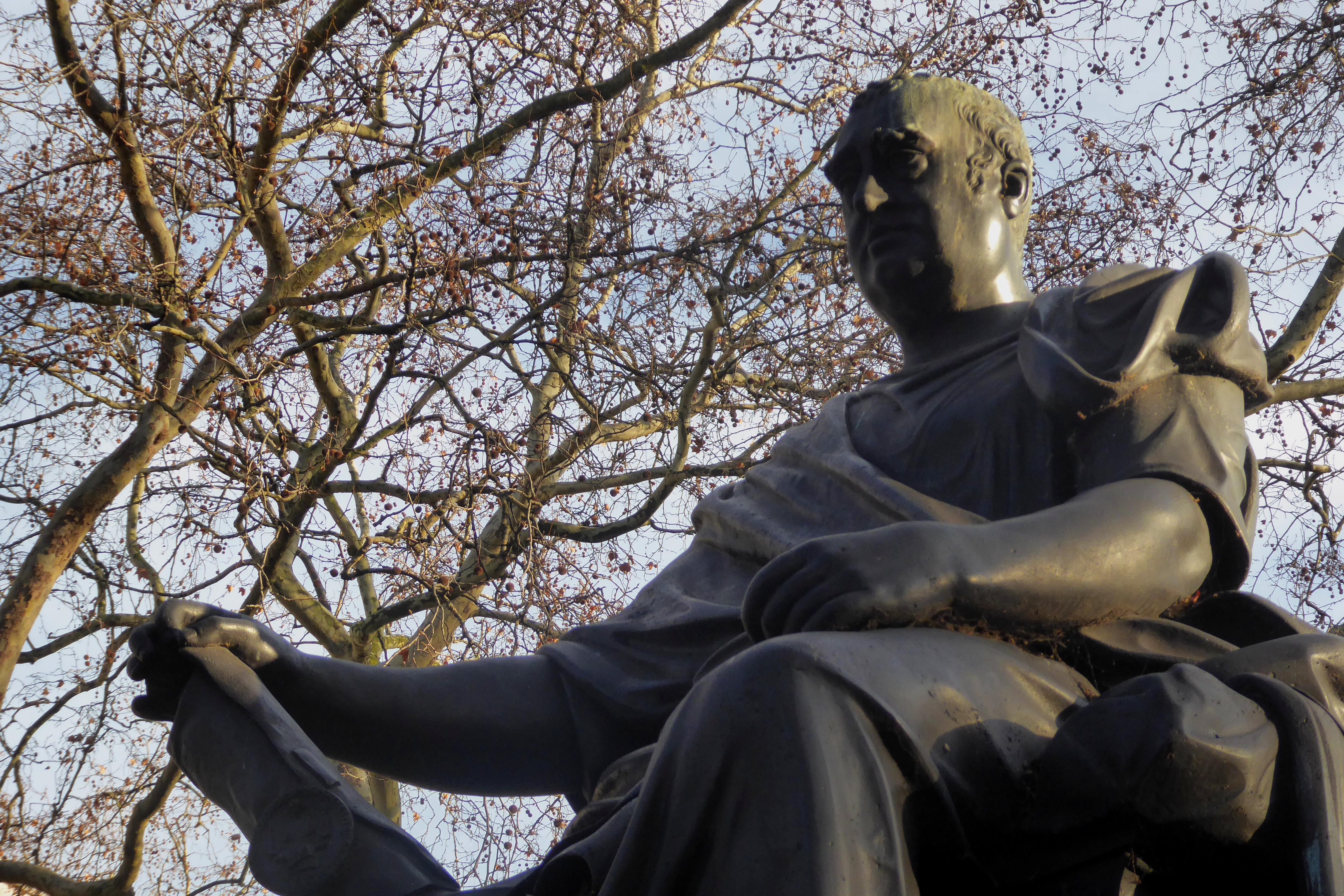 Detail of the Charles James Fox statue in Bloomsbury Square.